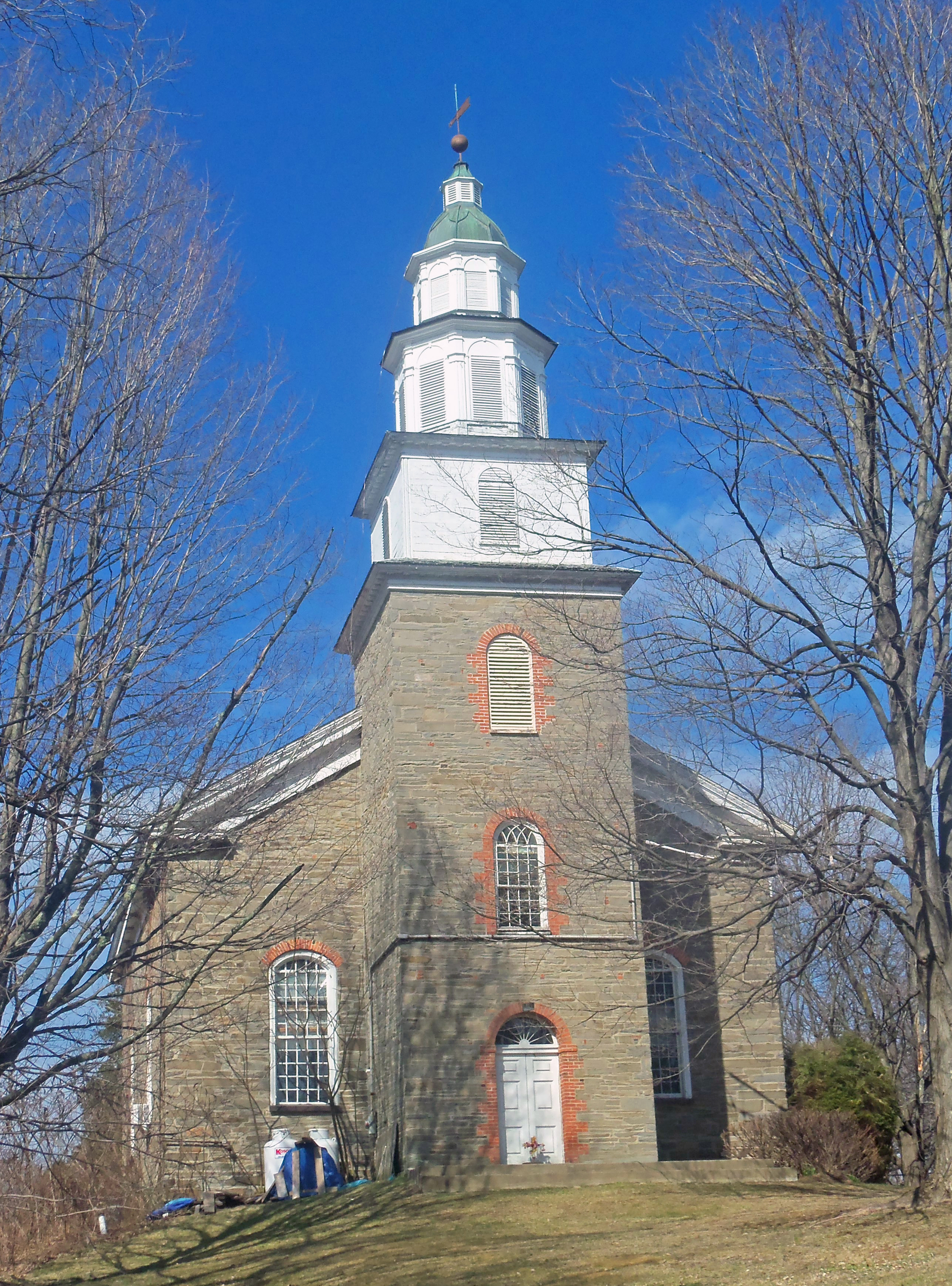 South (front) elevation of Evangelical Lutheran Church of St. Peter, Rhinebeck, NY, USA